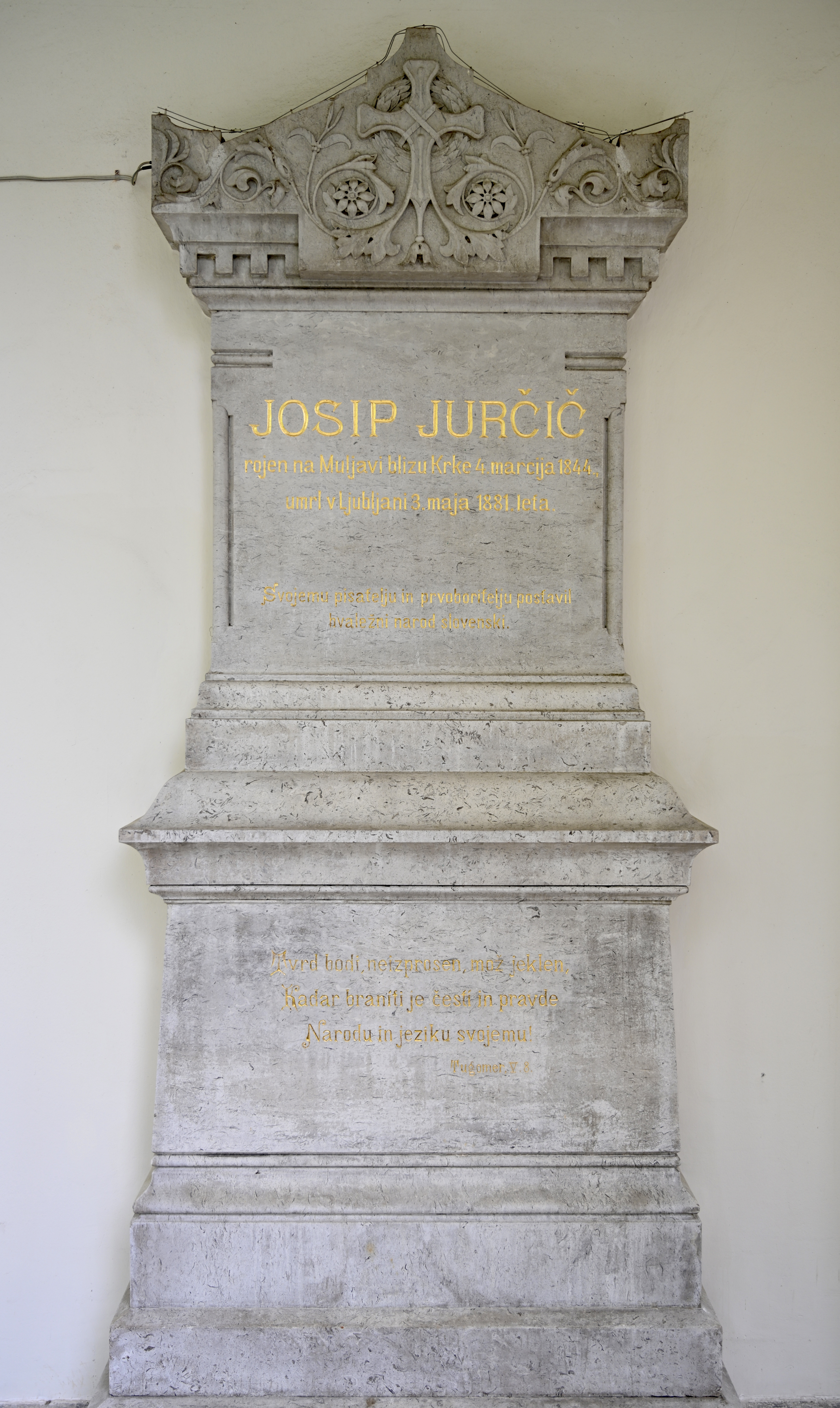 Tombstone of Josip Juršič, a Slovenian author, at Navje in Ljubljana